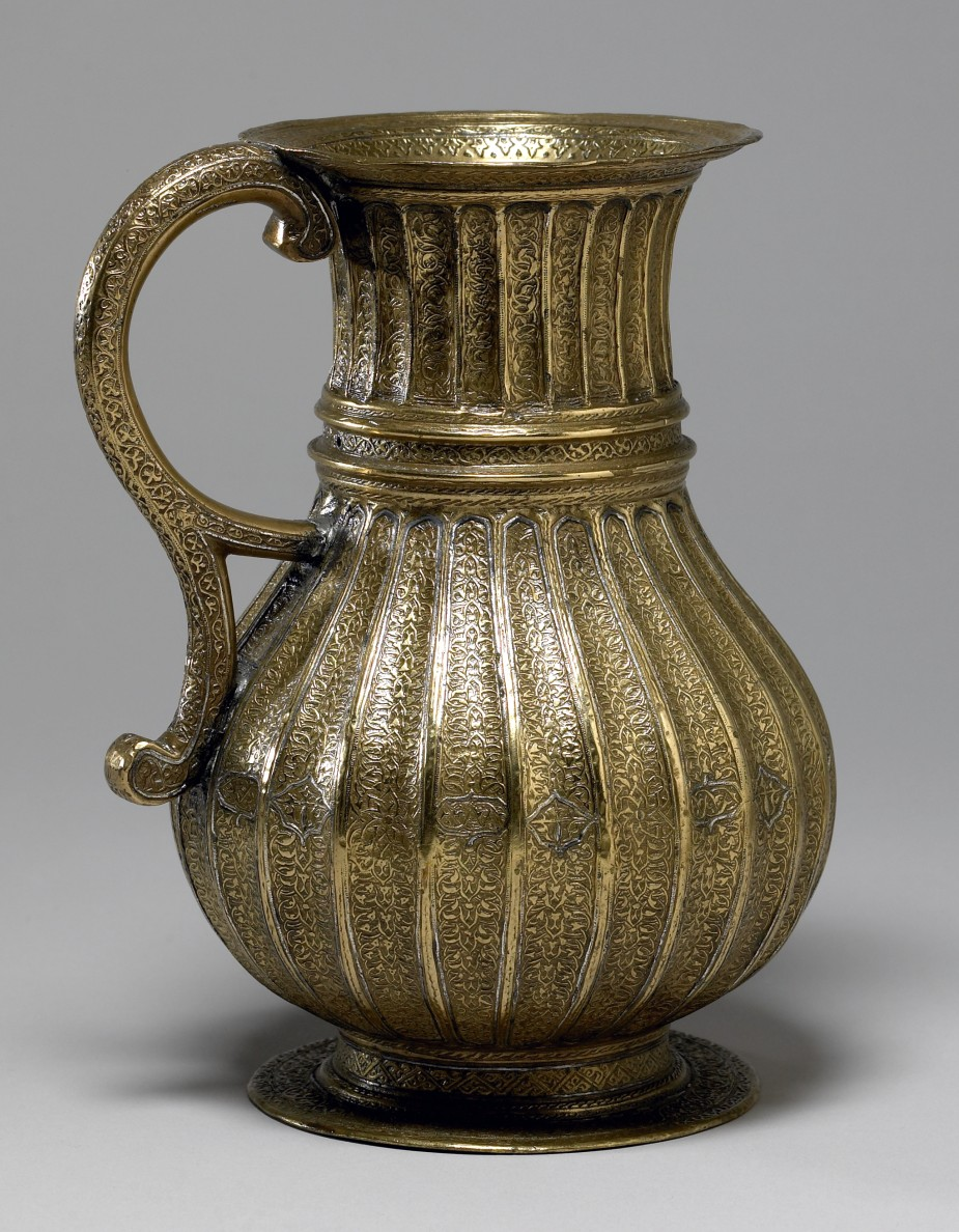 This fine jug exemplifies the way that the style of Islamic metalwork was adapted for the European market. It is decorated with arabesques, but there are no medallions or inscriptions typical of Islamic design. Once believed to have been produced in Venice by Muslim metalworkers, this jug is now thought to come from Iran. The signature on the inside lip reads: "Decorated by master Qasim."